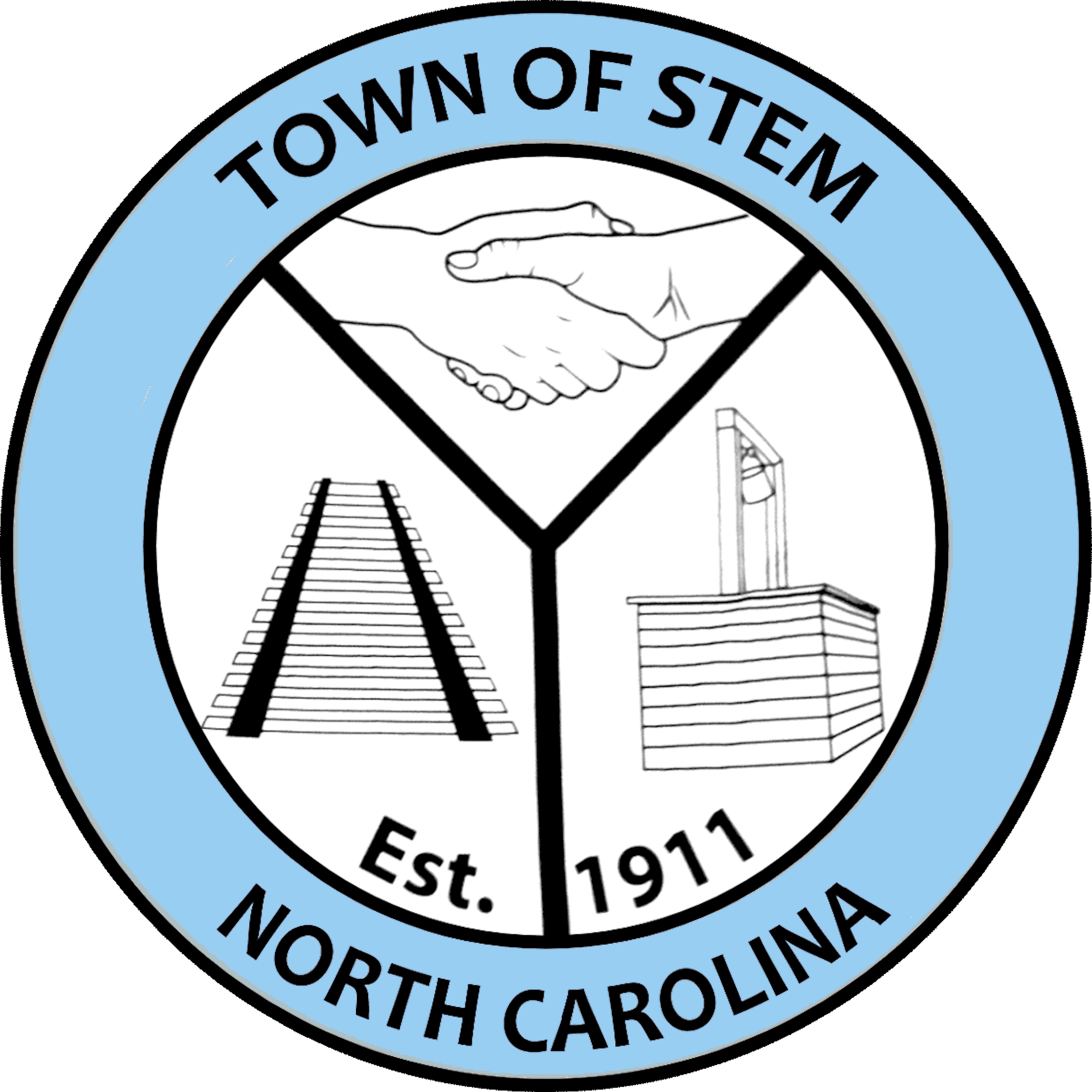 Town of Stem Logo